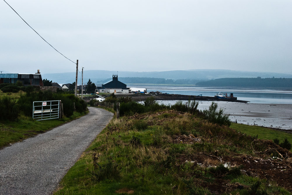 Ferry point